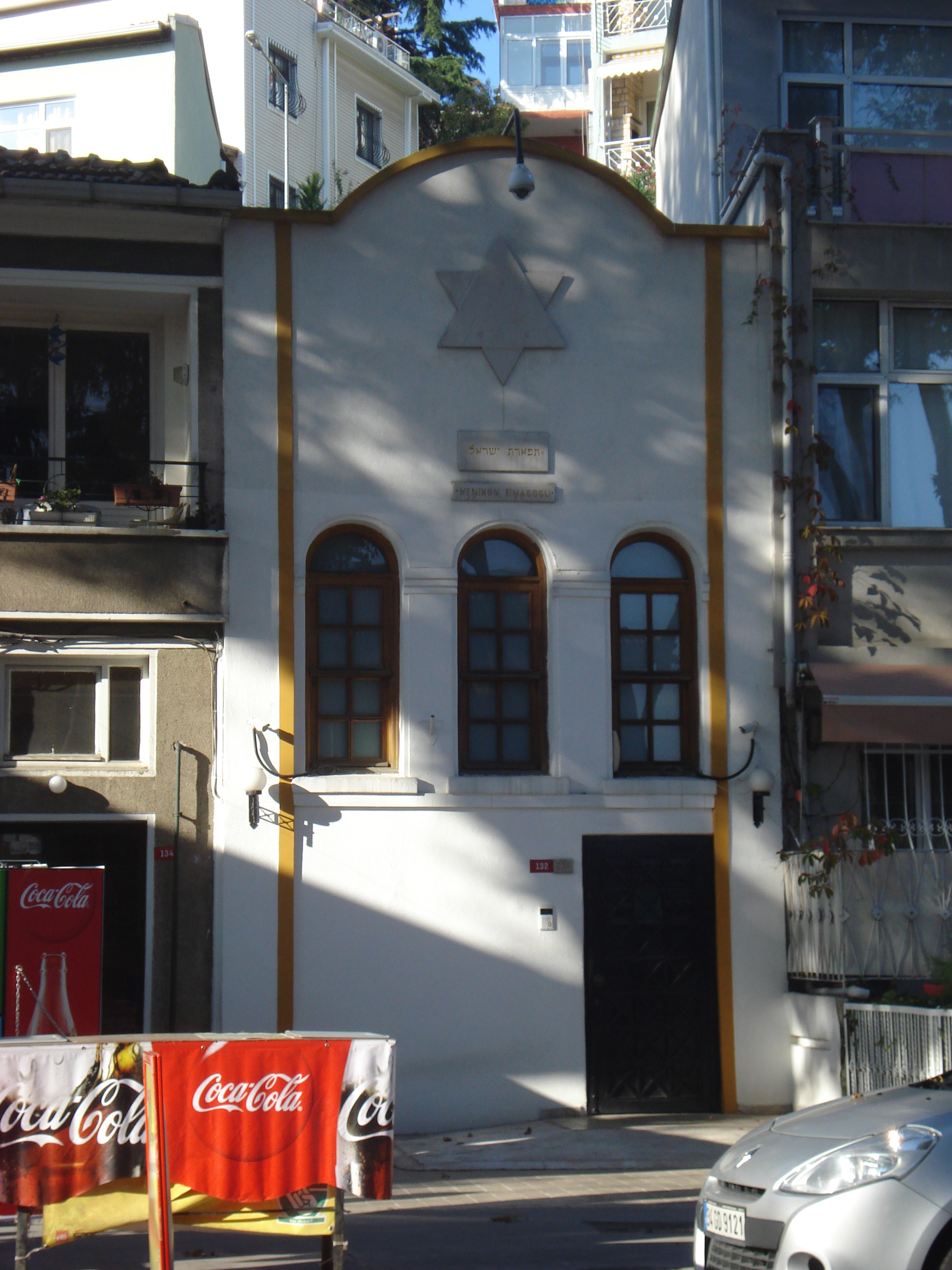 Yeniköy Synagogue, İstanbul.